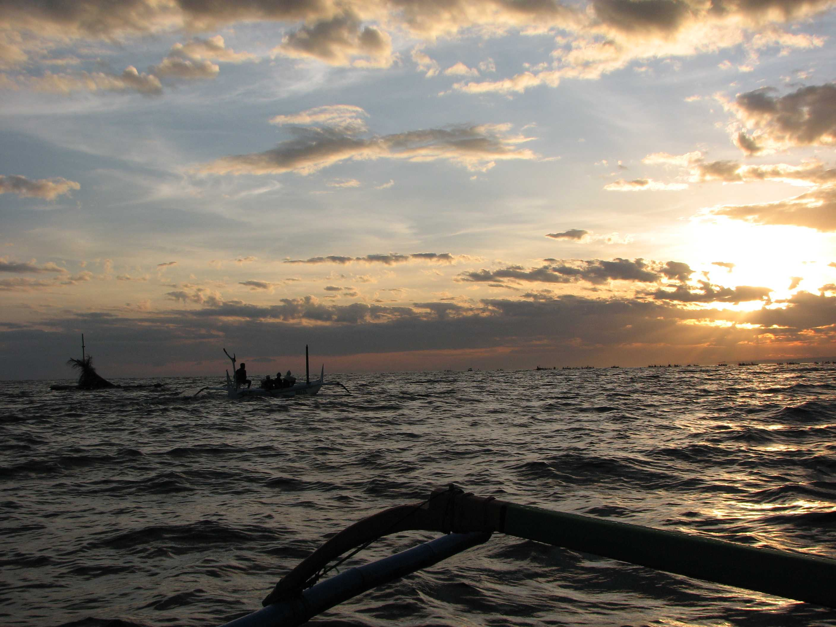 Lovina - Sunrise off the coast on dolphin trip.